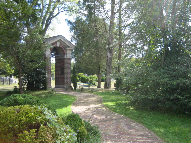 St. Barnabas Church in October of 2007